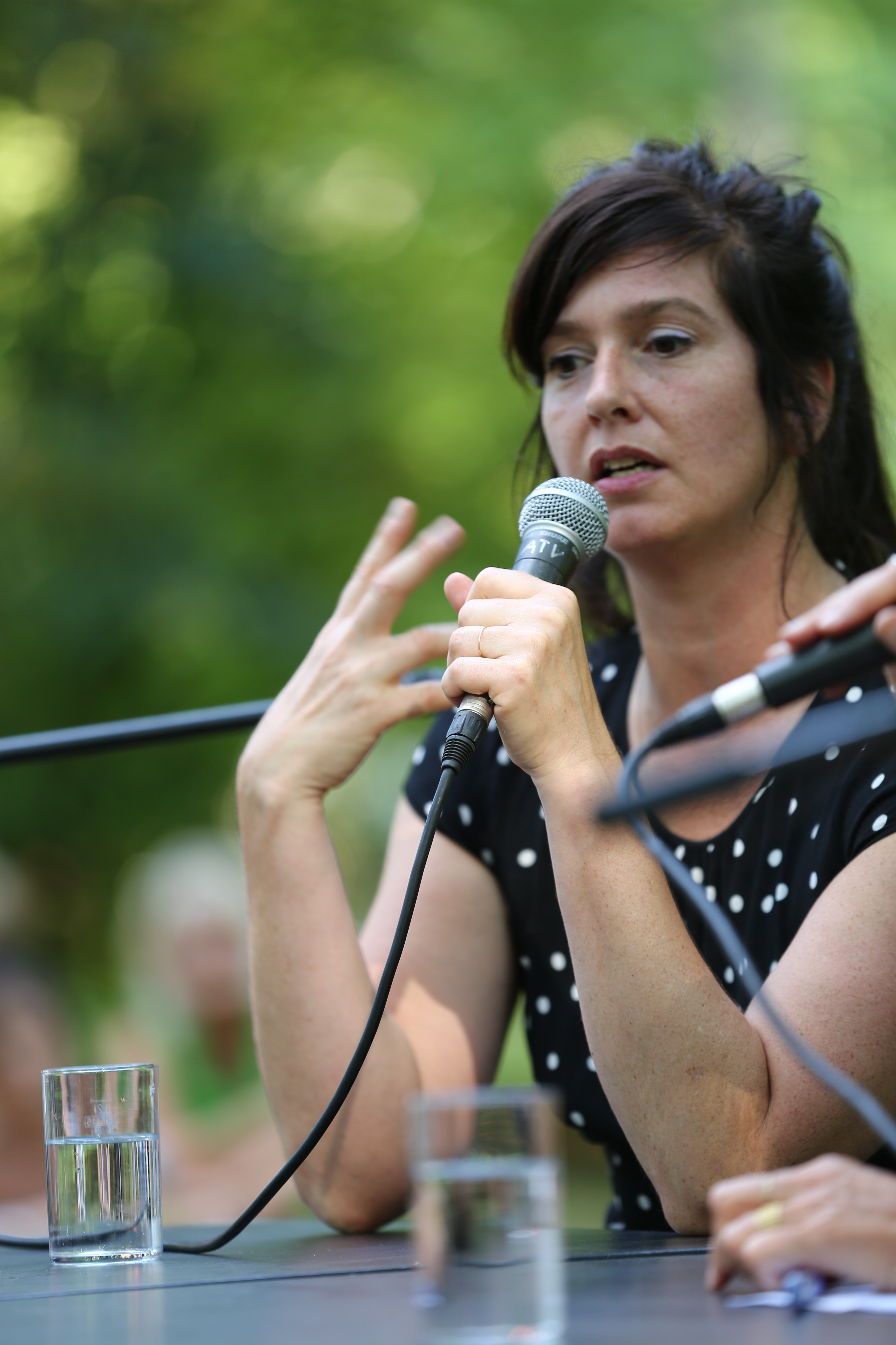 German author Karen Köhler prensents her novel Miroloi" at literature festival "Erlanger Poetenfest" 2019